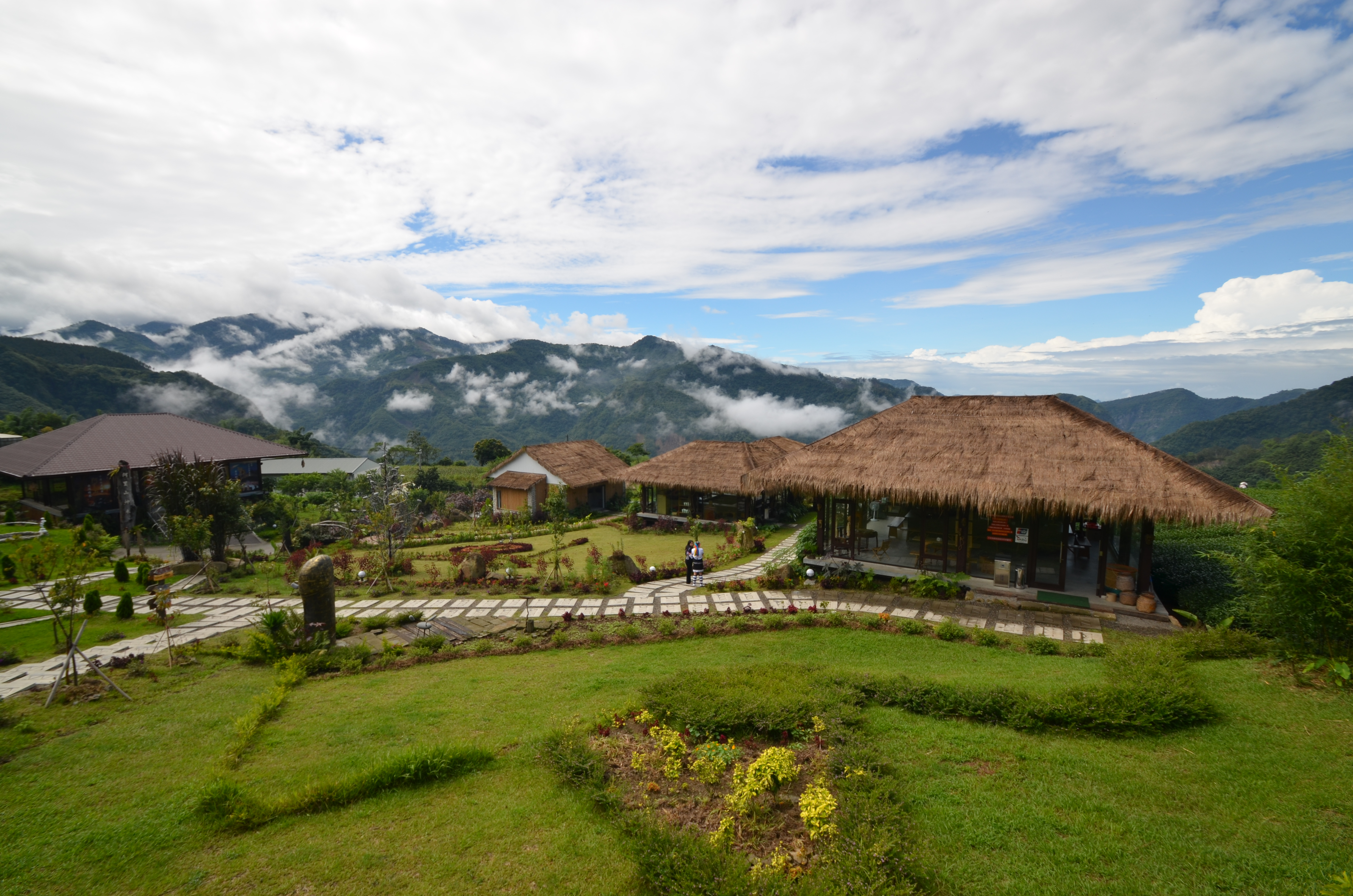 YUYUPAS Tsou Cultural Park. This photo was taken in Taiwan Ali Mountain